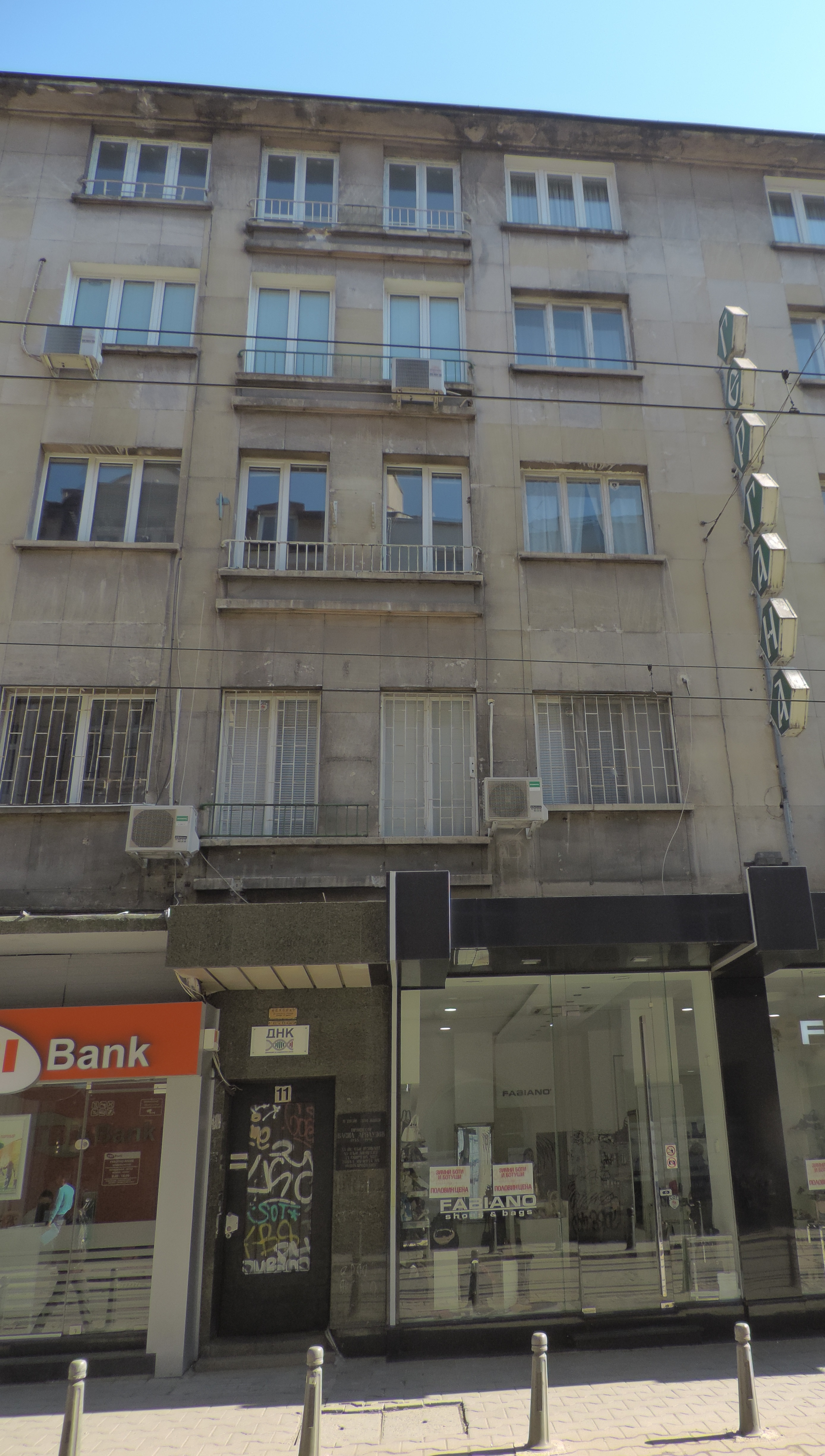 The home of the Bulgarian choir conductor Vasil Arnaudov. The building is located on 11 "Graf Ignatiev" Str., Sofia, Bulgaria.